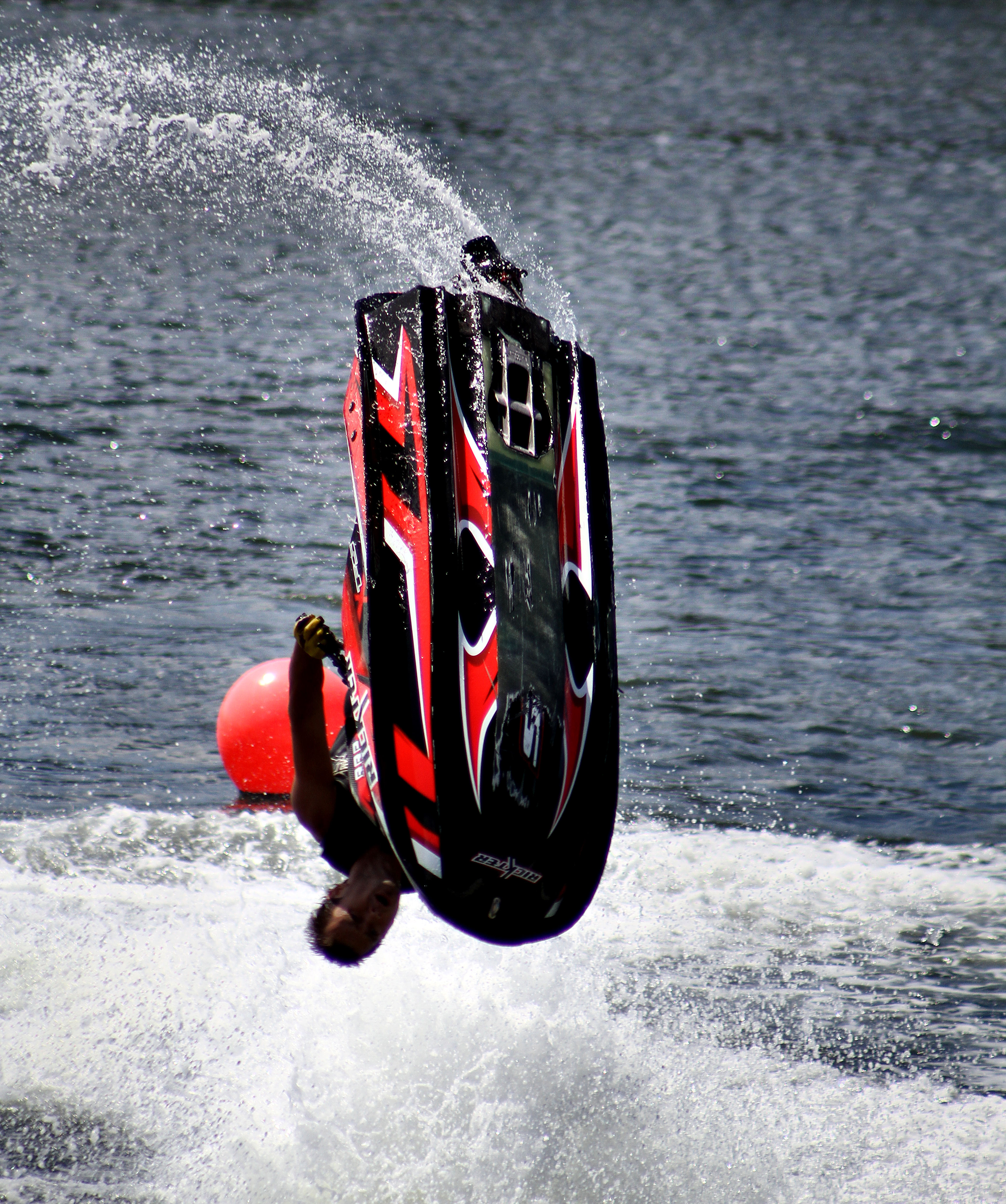 Honeymoon. Gold Coast, Australia.